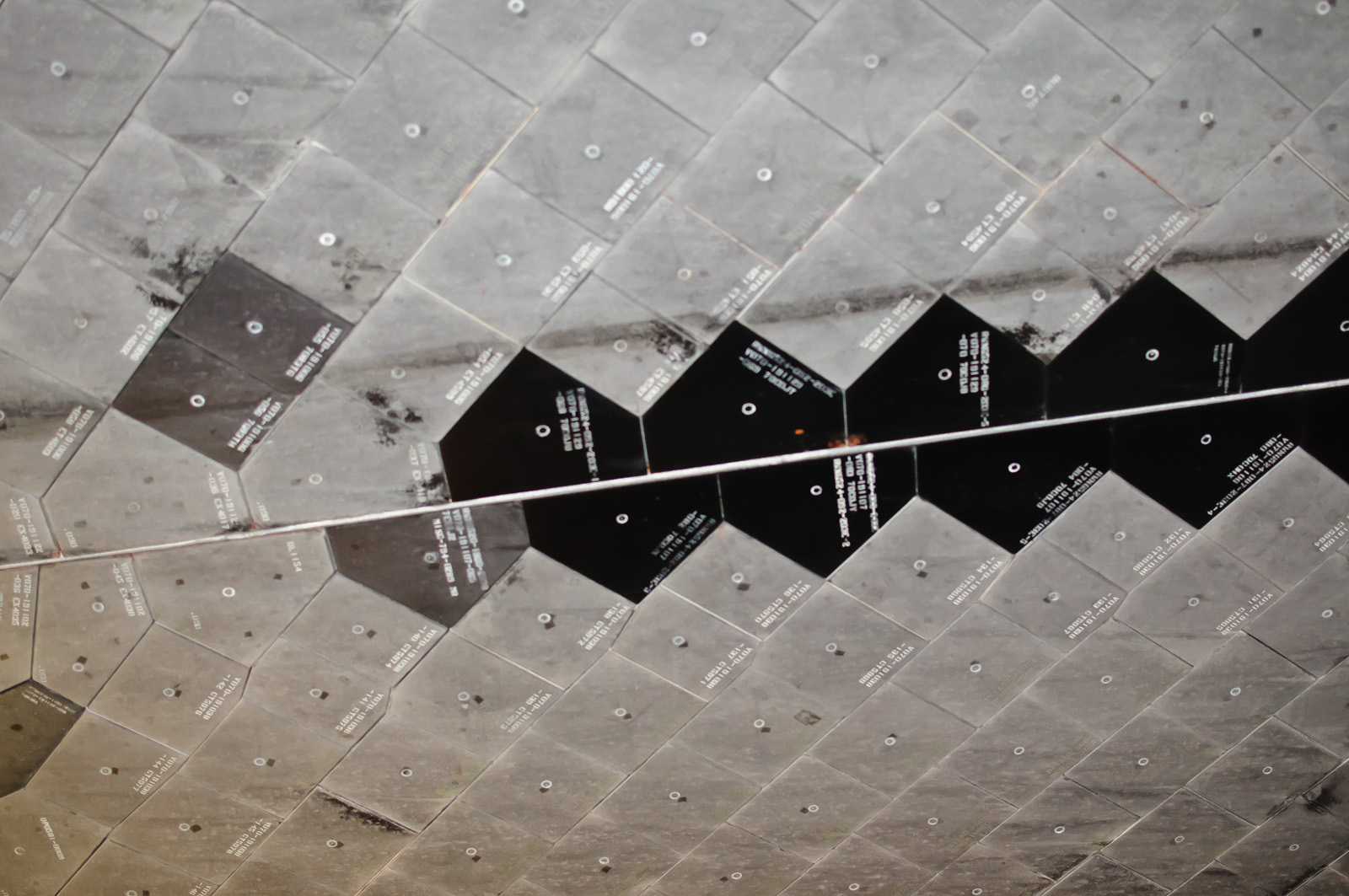 Retired in May 2011, Space Shuttle Endeavour was ferried to Los Angeles on 21 September 2012, moved through city streets from the airport to Exposition Park on 12-14 October 2012, and put on display on 30 October 2012. After having seen the moves a few weeks earlier, I am visiting Endeavour again, on the second full day of the exhibit, Halloween. Endeavour will be kept in this temporary exhibit space, Samuel Oschin Pavilion, until 2017, when the permanent Samuel Oschin Air & Space Center is planned to open, and Endeavour is to be displayed there in the launch configuration complete with boosters and external fuel tank. Details of the heat tiles on the right landing gear door. These tiles are made of carbon fiber and can withstand a temperature of approximately 2,500F. Every tile is cut for a specific portion of the orbiter, and is fastened to the orbiter body via a gel-like layer, to prevent cracking from the expansion and contraction of the orbiter due to temperature changes during flight. Each tile costs $2,000, and is brittle enough that it can be easily crushed in a hand. Other portions of the orbiter get other types of protection; the upper half gets white insulation to reflect sunlight away, while the nose and the wing leading edges, the hottest parts of the shuttle during re-entry, get special carbon-carbon compound pieces that must be replaced after every flight.